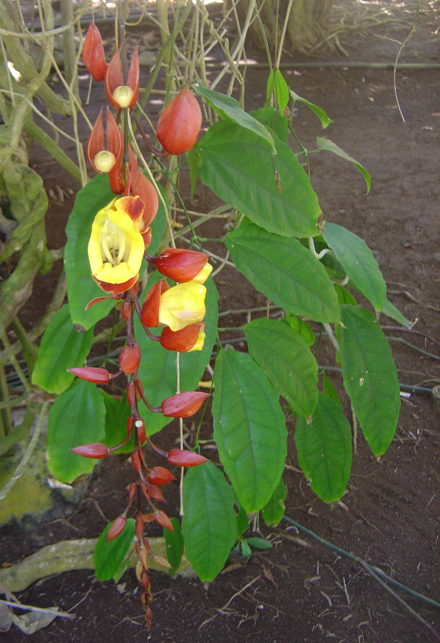 Photograph taken at the Jardin d'Éden botanical park, Saint-Gilles les Bains (commune of Saint-Paul), Réunion Island (Indian Ocean, a part of the French Republic).